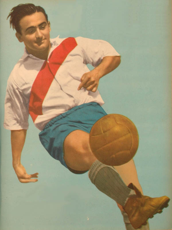 Norberto Yácono playing for River Plate, as seen on the cover of El Gráfico in 1942.